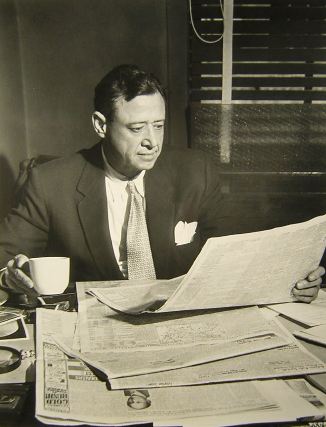 Anthony Ross in the american TV-series The Telltale Clue - publicity still (cropped)